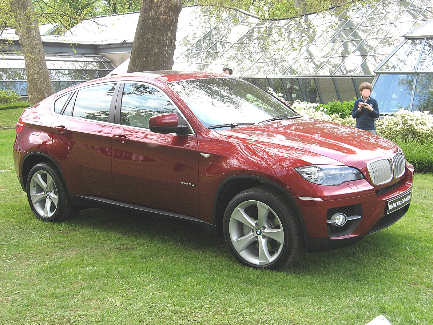 Subject:BMW X6 xDrive50i (2008) Date:April 27th, 2008 Event:Concorso d’Eleganza”Villa d’Este” 2008 Place/Country: Cernobbio (CO), Italy I release all rights in the public domain.